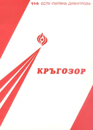 Cover page of the newspaper "Krugozor" (Кръгозор)